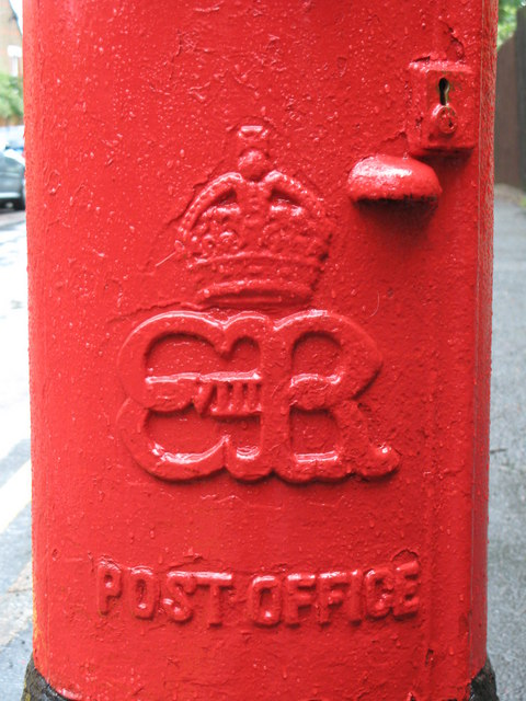 Edward VIII postbox, Shire Lane / Haddon Road - royal cipher See 923331.